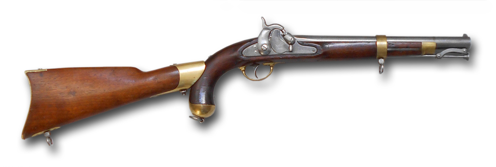 Springfield 1855 Pistol-Carbine